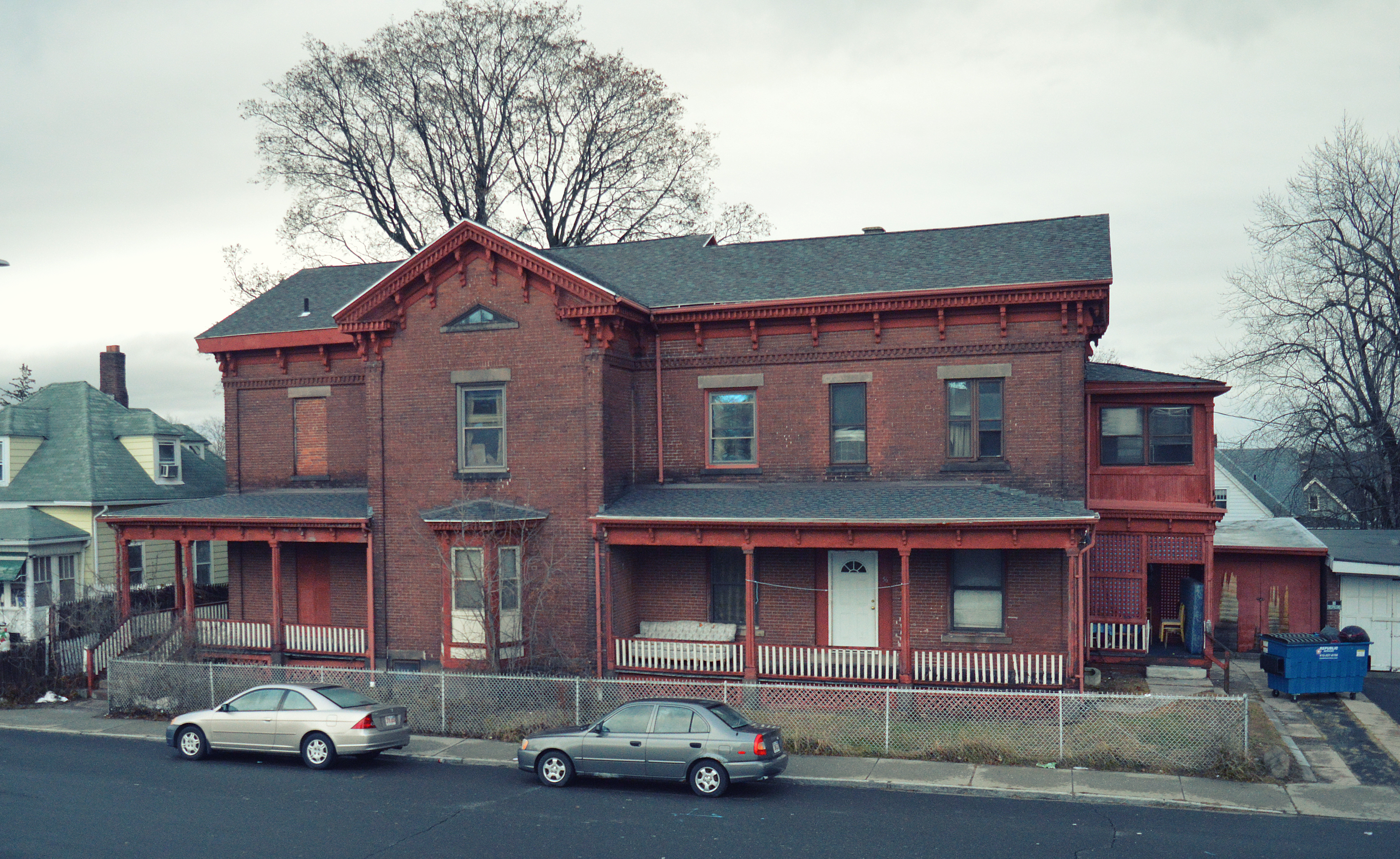 The George C. Ewing House, an Italianate structure of brick built by one of Holyoke's George C. Ewing in 1884, and moved in 1925 to a new location after the construction of Our Lady of the Holy Cross Church on its original site